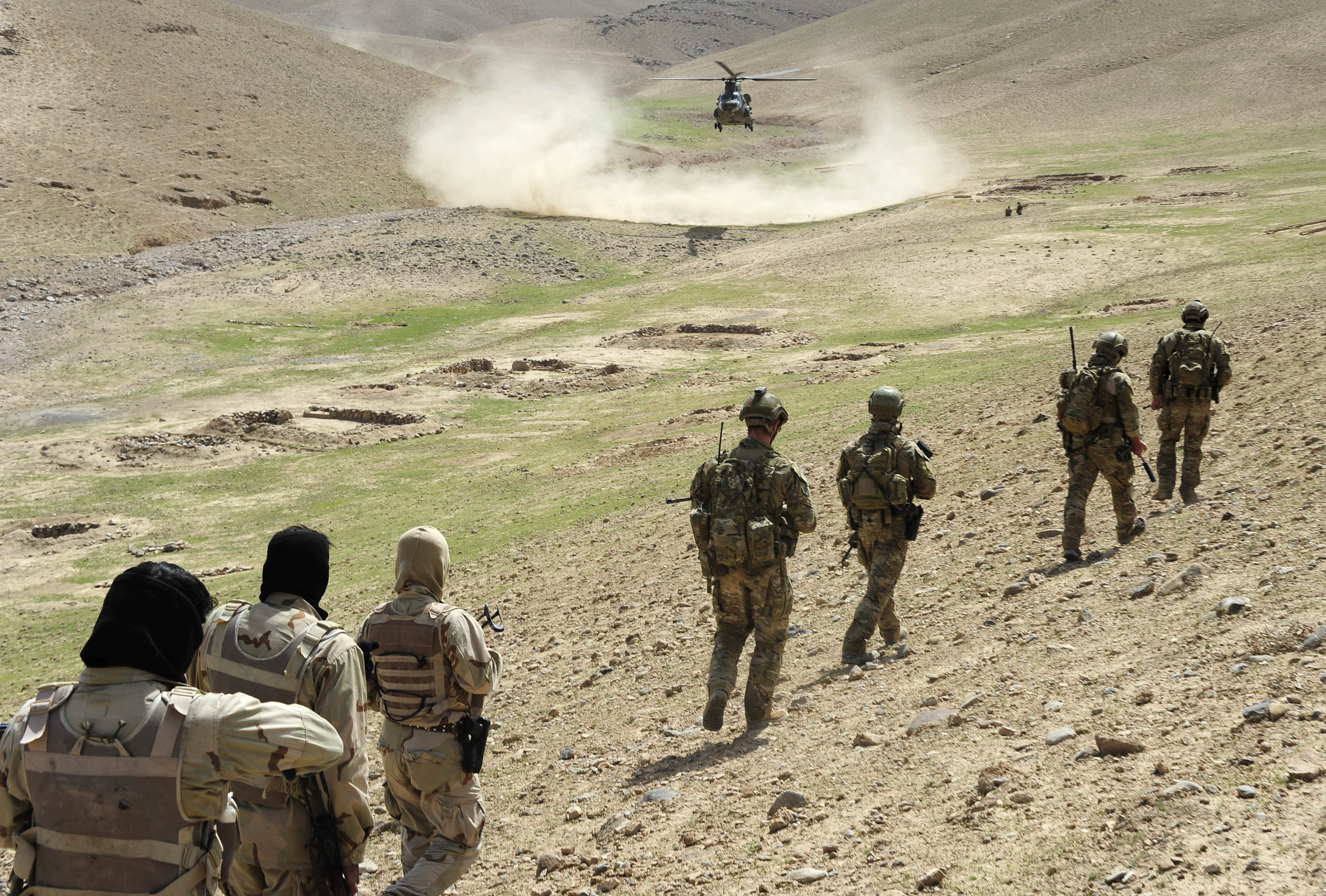 Soldiers from the Afghan National Army and 2nd Commando Regiment, Australian Special Operations Command, watch from a distance as a CH-47 Chinook helicopter assigned to 1st Battalion, 2nd Aviation Regiment from Fort Carson, Colo., attached to the 25th Combat Aviation Brigade, comes in for a landing in the Uruzgan province, Afghanistan, March 26.